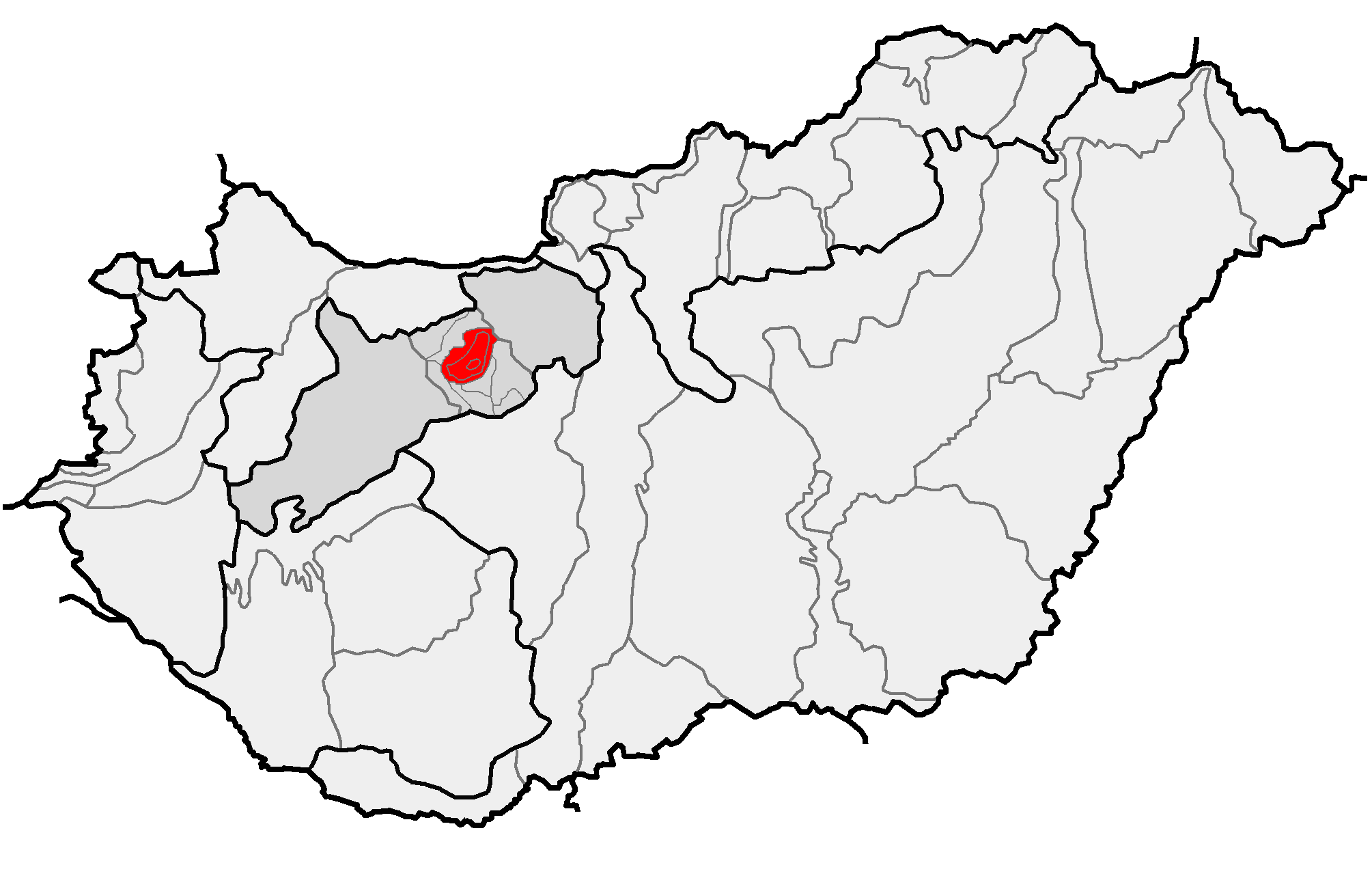 Location of geographical subregion of Vértes-hegység (red) and macroregion of Dunántúli-középhegység (gray) within subdivisions of Hungary.